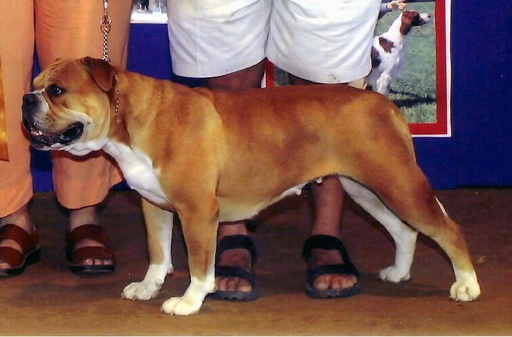 Olde English Bulldogge ARBA & OEBKC CH LTD's Tinkerbelle winnning Best in Show. Tinkerbelle is an excellent example of what a "True" Olde English Bulldogge should like. She was almost 2 at the time of this photo and is currently almost 5 years old.